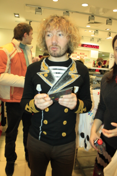 Yuri Tsaler